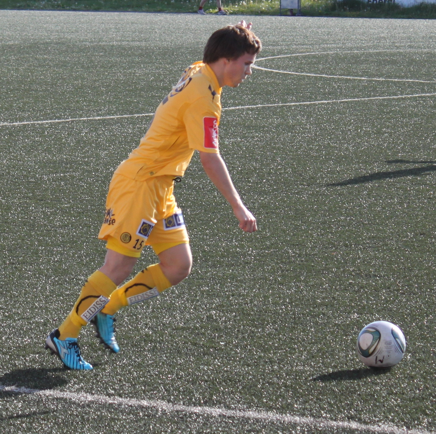 Erlend Robertsen playing for Bodø/Glimt in away game against Strømmen on 5 June 2011.